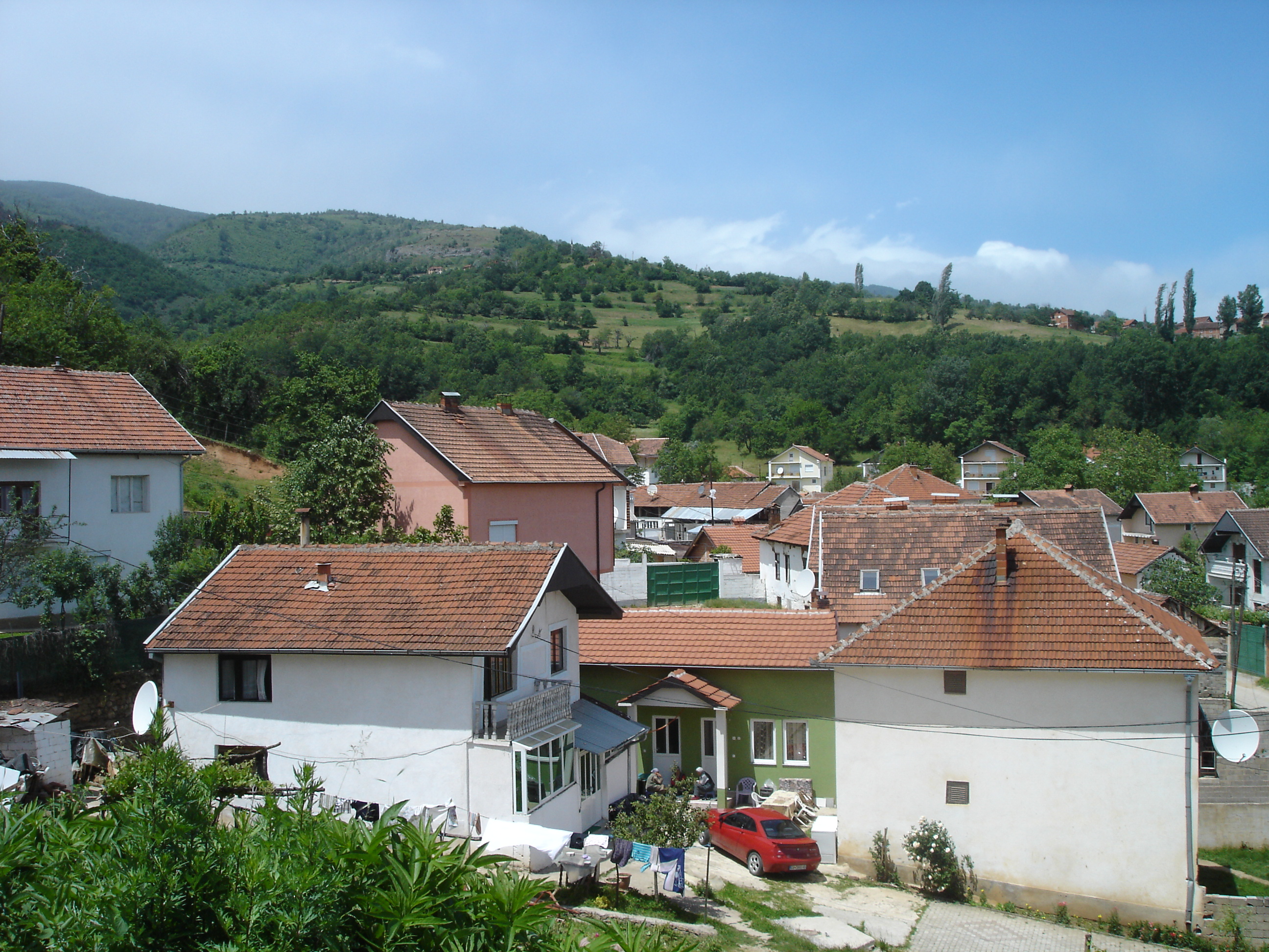 village of Debreshe, near Gostivar, Macedonia